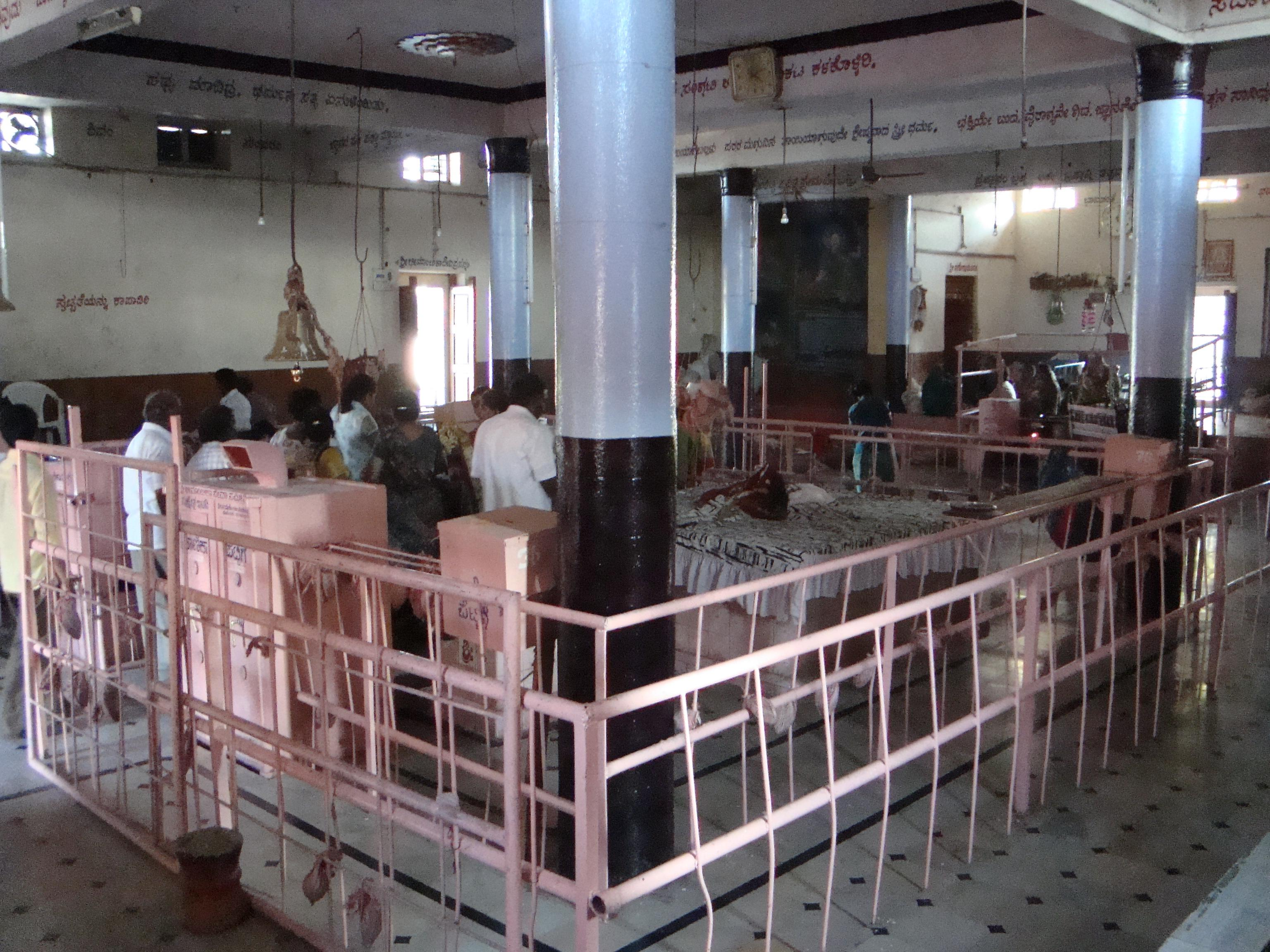 Itagi bhimambika temple. Hubli, Karnataka(North), India